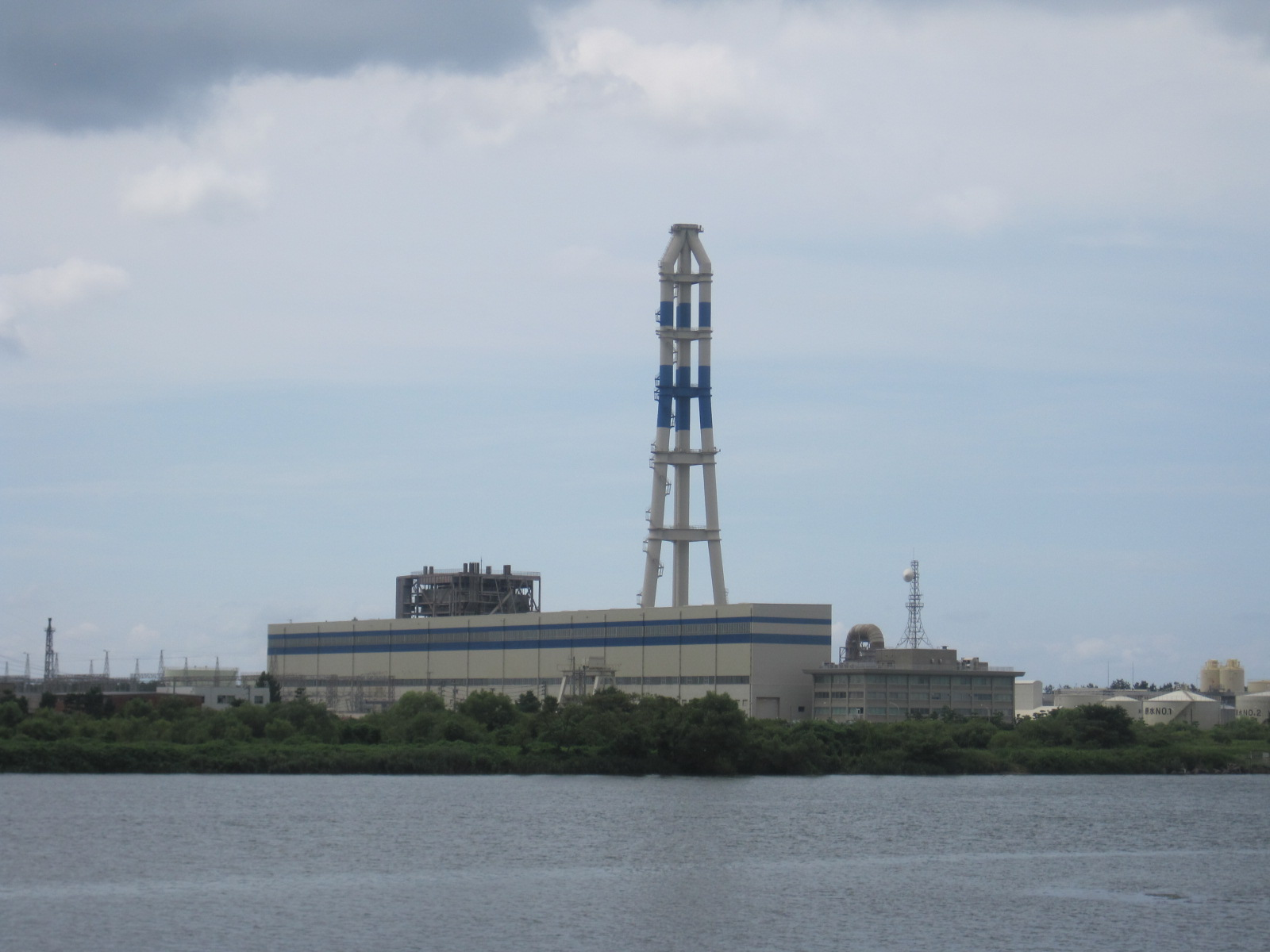 Toyama Thermal Power Plant (Toyama city, Toyama prefecture)